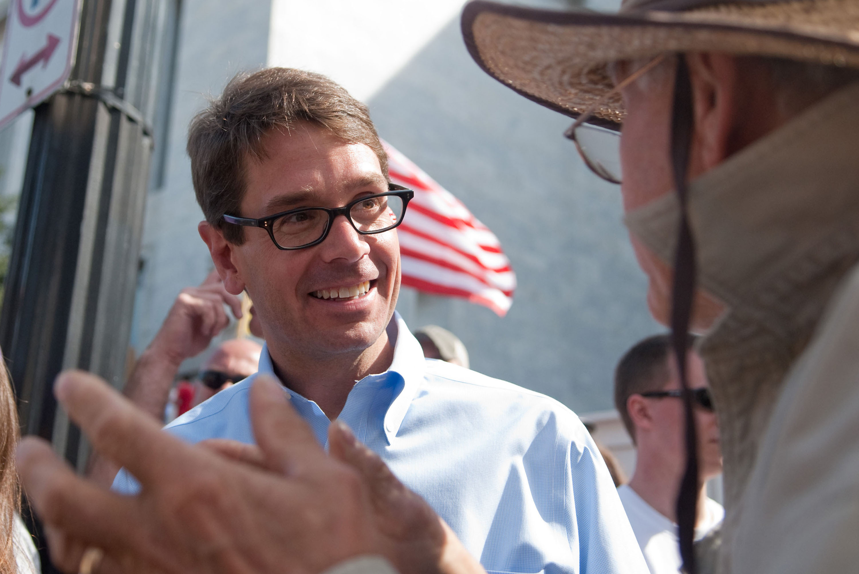 Grif Jenkins listens intently to one of his many fans.